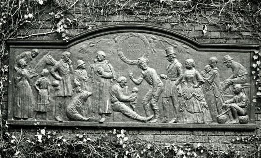 Bret Harte Memorial by Jo Mora, 1919. Bohemian Club, San Francisco, CA